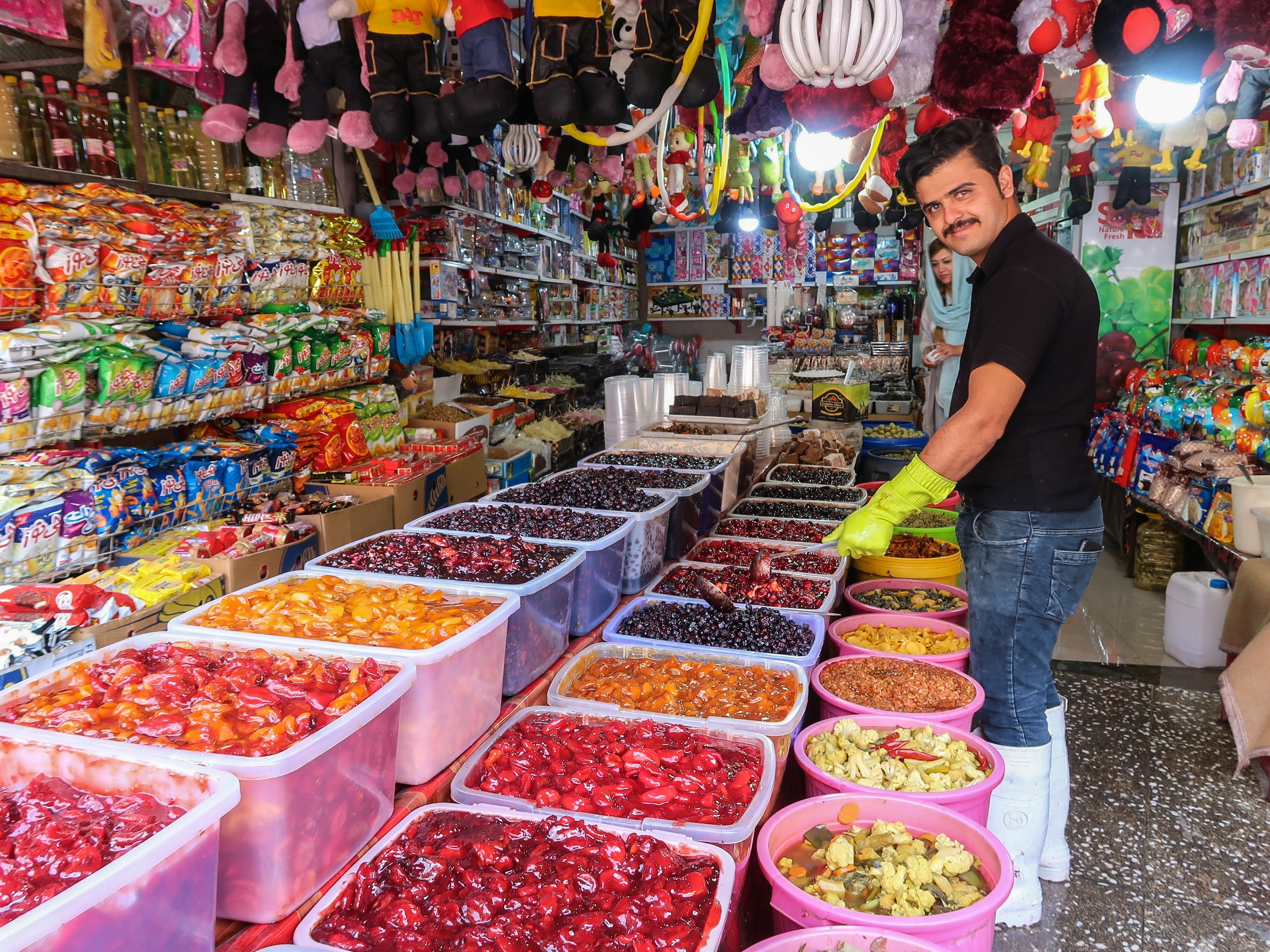 Qashqai shopkeeper in Dasht-e Arzhan (Fars Province, Iran)